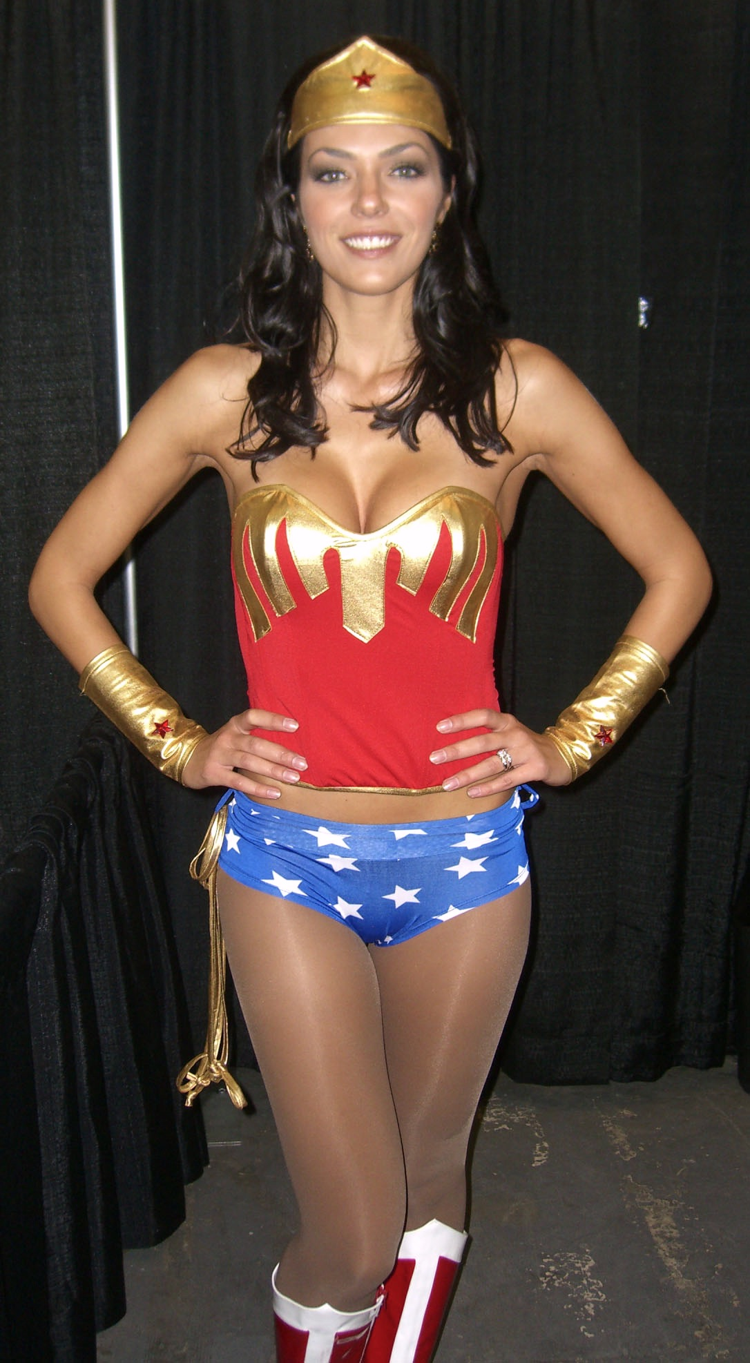 Model and reality TV personality Adrianne Curry at the Big Apple Convention in Manhattan. Photo by Luigi Novi. This photo may be used, modified and published for any purpose, only if the photographer is visibly credited in each instance in which it is used. (See licensing information below.) For more information on my photos, you can contact me here.